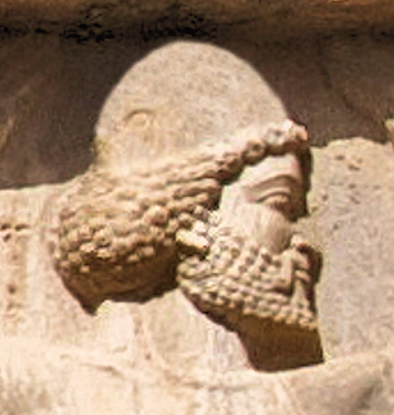 Xerxes detail Gandharan head enhanced